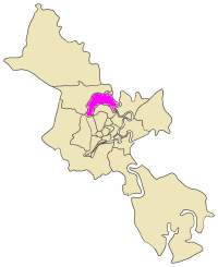 position of district 12 in an outline of the metropolitan area of HCMC (Ho Chi Minh City, Vietnam) - ISO code VN-F-HC. Keywords: map, outline, city, Ho Chi Minh City, HCMC, HCM, district 12, quan 12.